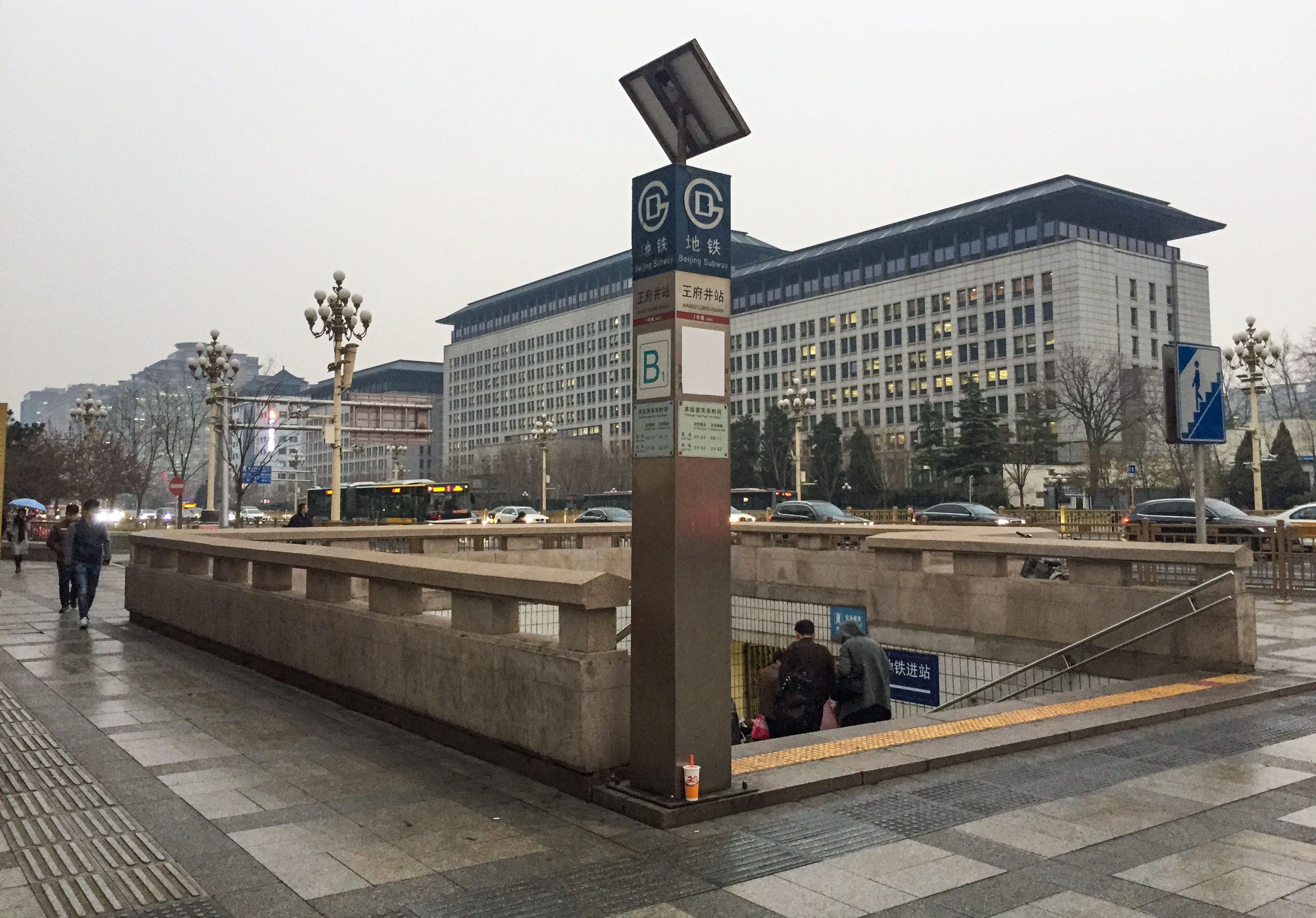 Actually, it's a pedestrian tunnel entrance.